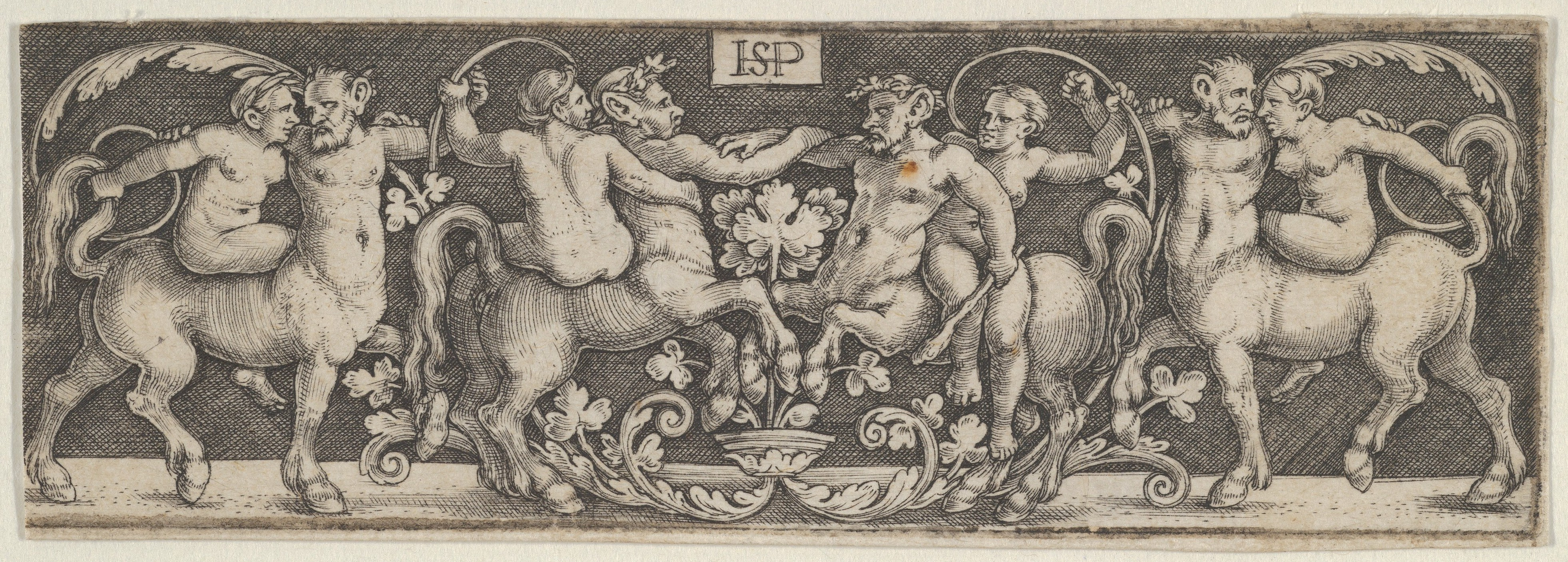 print ornament & architecture; Prints/Ornament & Architecture